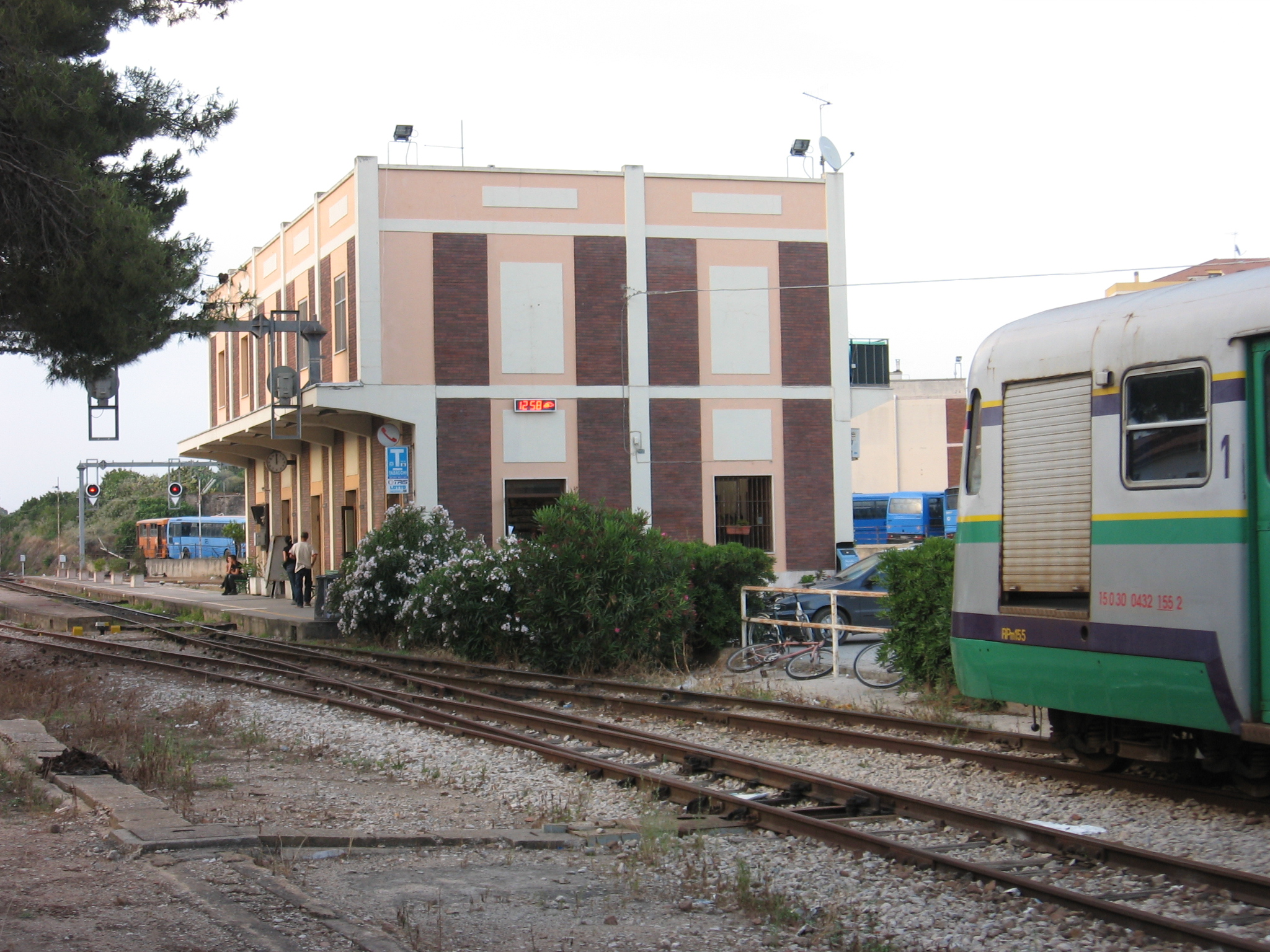 Alghero, station